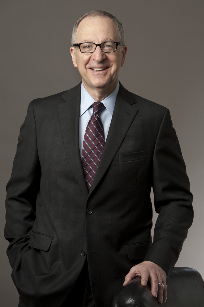 Photo by Robert Barker, Cornell University Photography Dr. David J. Skorton is the 13th Secretary of the Smithsonian. He assumed his position July 1, 2015.